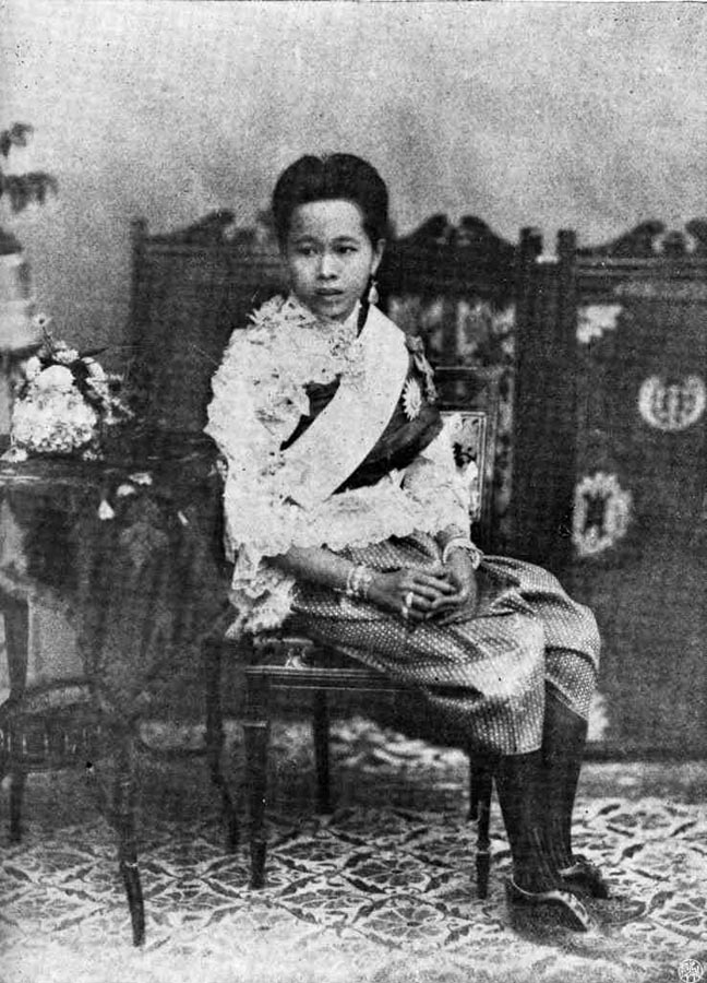 Princess Saisavali Bhiromya. Princess consort of King Rama V.